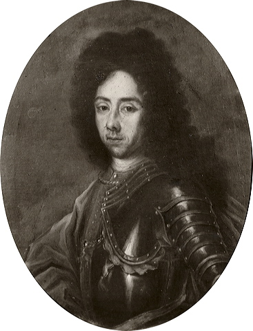 Giulio Visconti Borromeo Arese (1664-1751), conte di Brebbia imperial diplomat